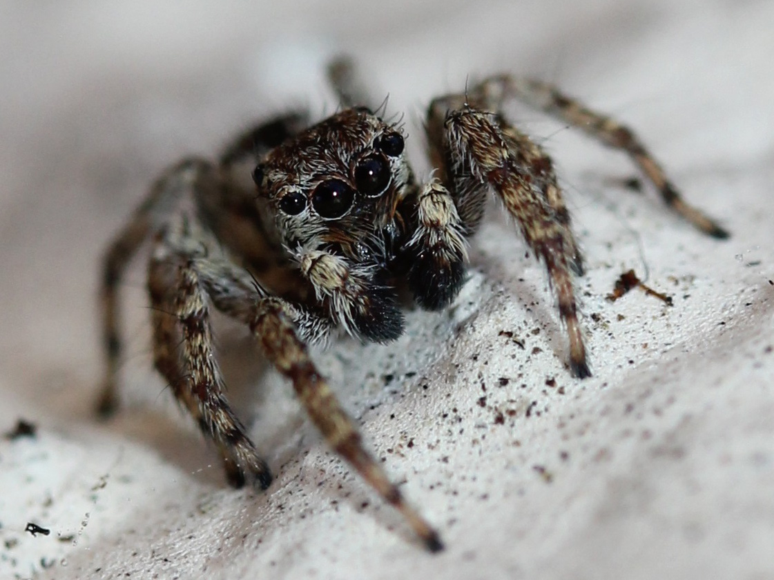 Mexigonus minutus in San Diego, California